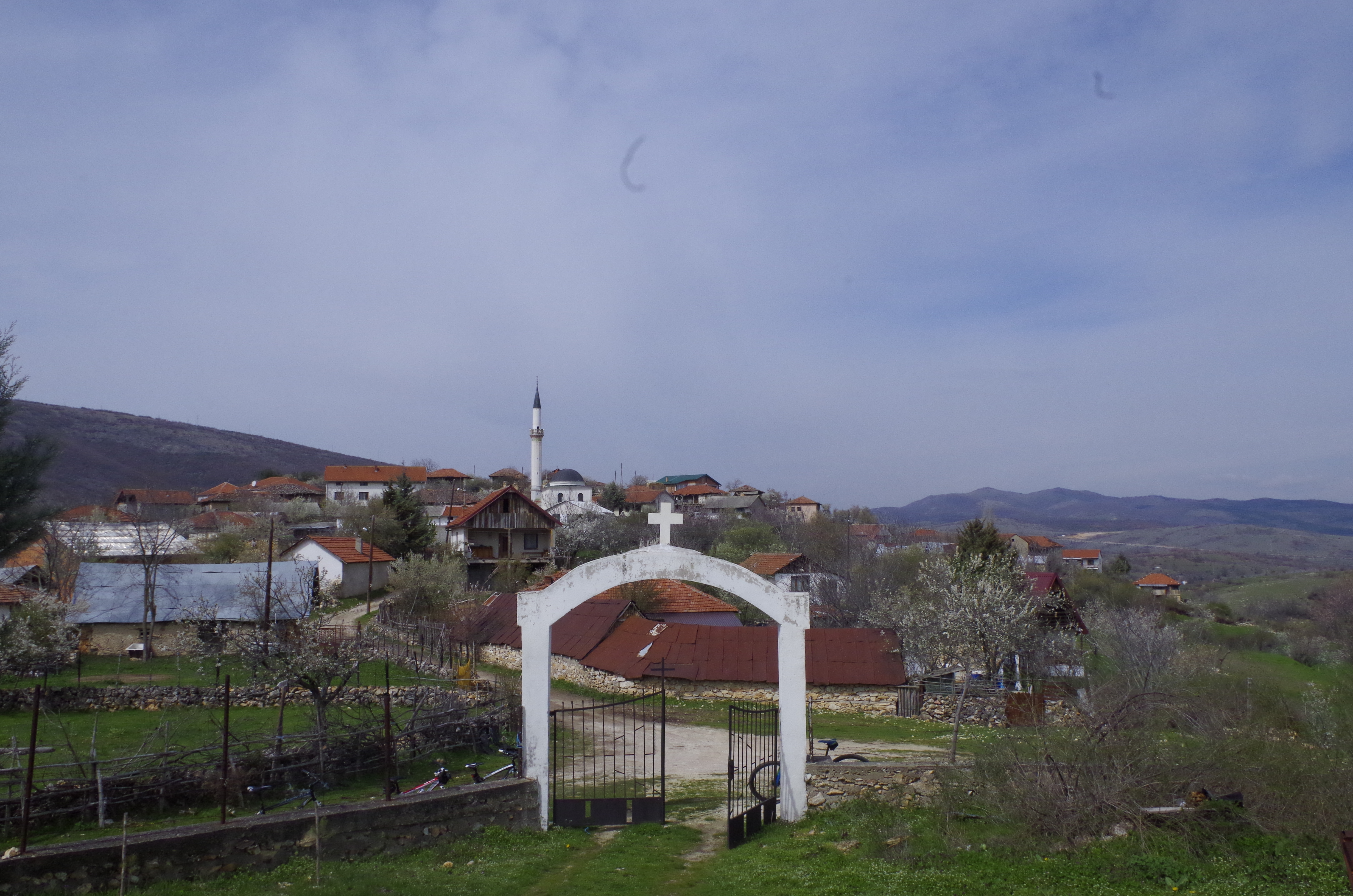 Village of Jabolci, viewed from the church